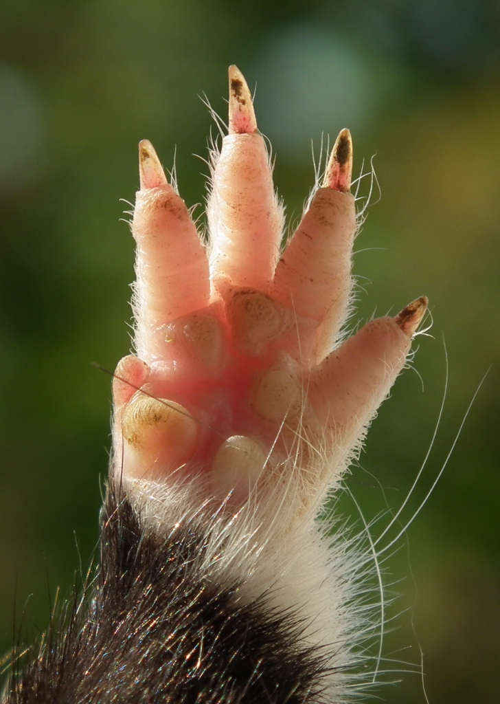 Cricetus cricetus - front foot